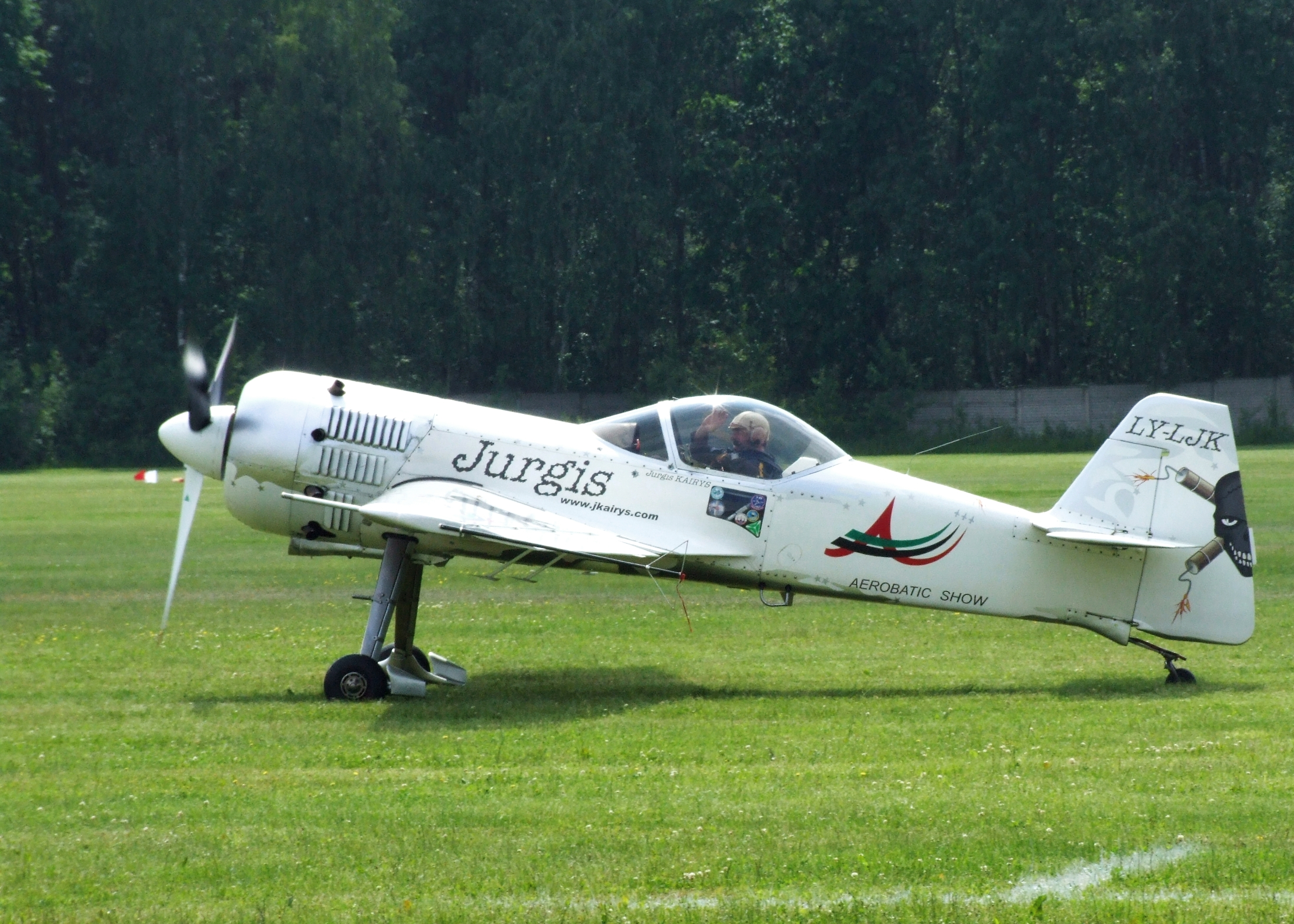 Jurgis Kairys in his Sukhoi Su-31 at the Góraszka Air Picnic, Poland 2009